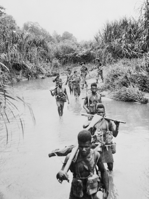 Troops from one of the New Guinea Infantry Battalions on patrol, July 1945